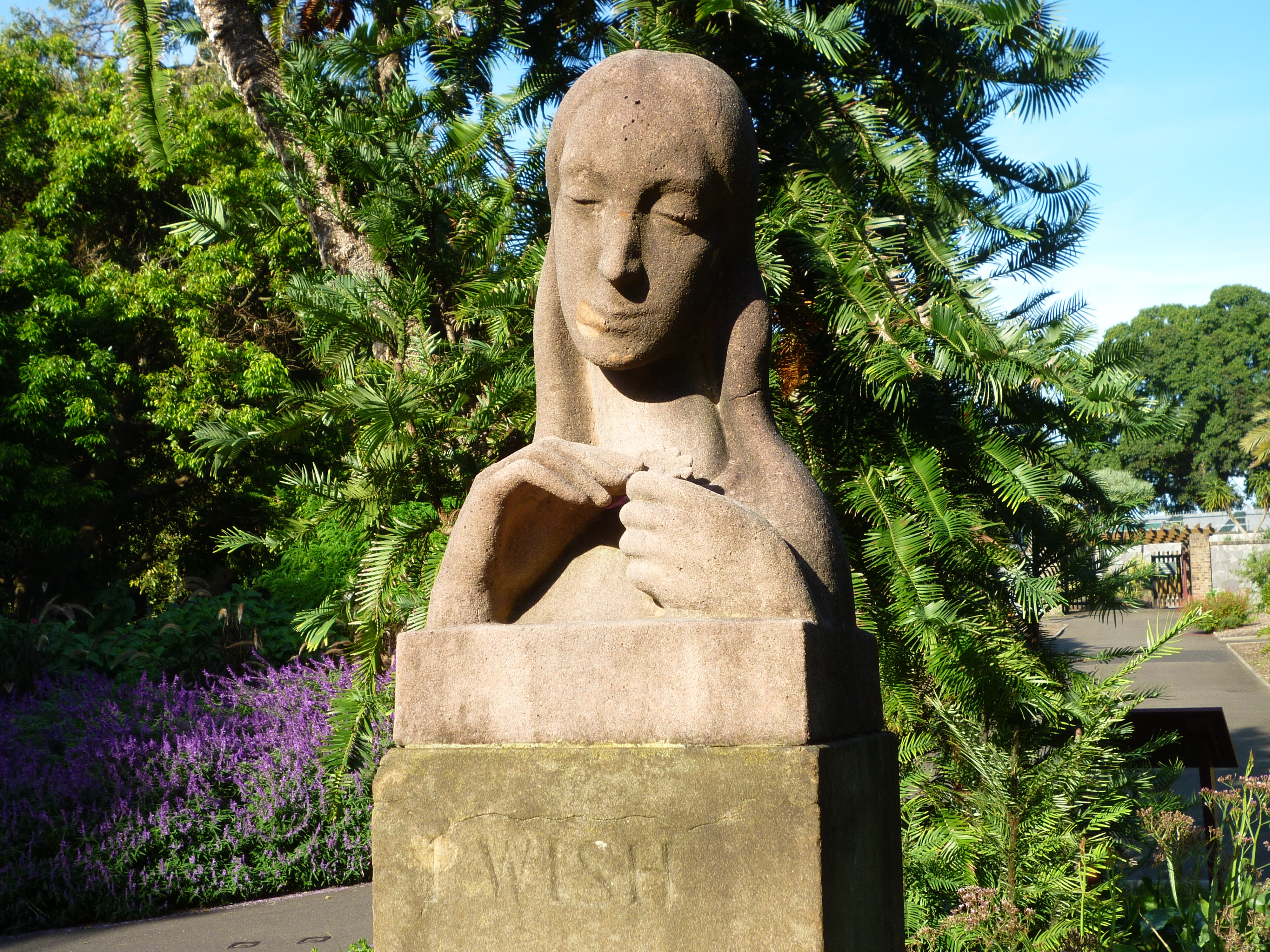 Stone sculpture in the Royal Botanic Gardens, Sydney